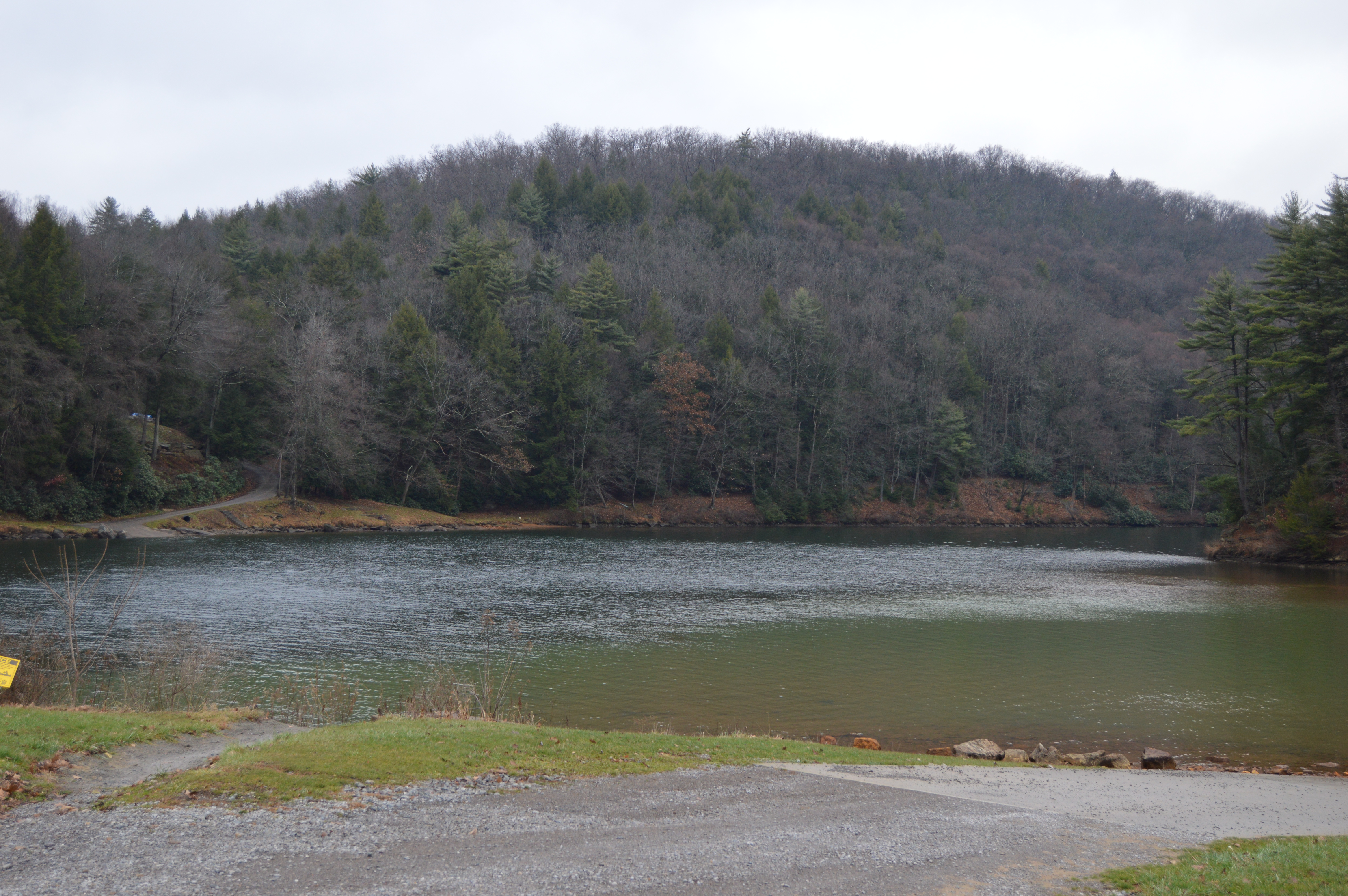 Confluence of Mill Creek with the Clarion River north of Strattanville in Clarion County, Pennsylvania, United States. The photo is taken from Clarion Township, the creek marks Clarion Township's boundary with Millcreek Township, and the land on the other side of the river is part of Highland Township.